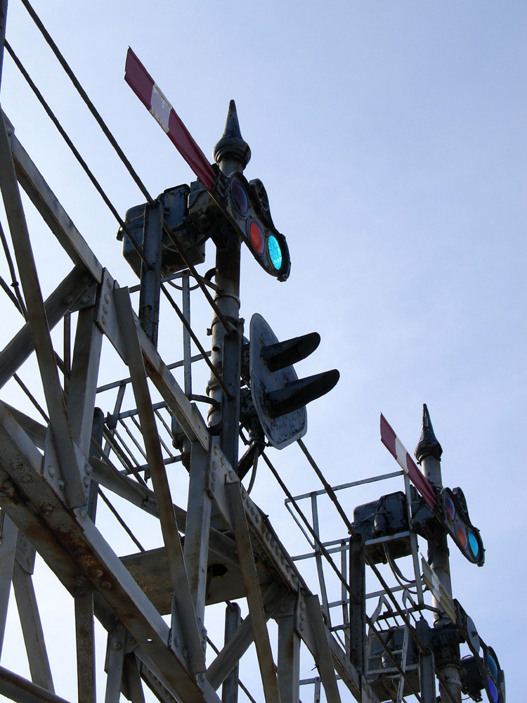 Old bridge signals of Barcelona-Francia Station at Museu del Ferrocarril de Catalunya, in Vilanova i la Geltrú (Barcelona)